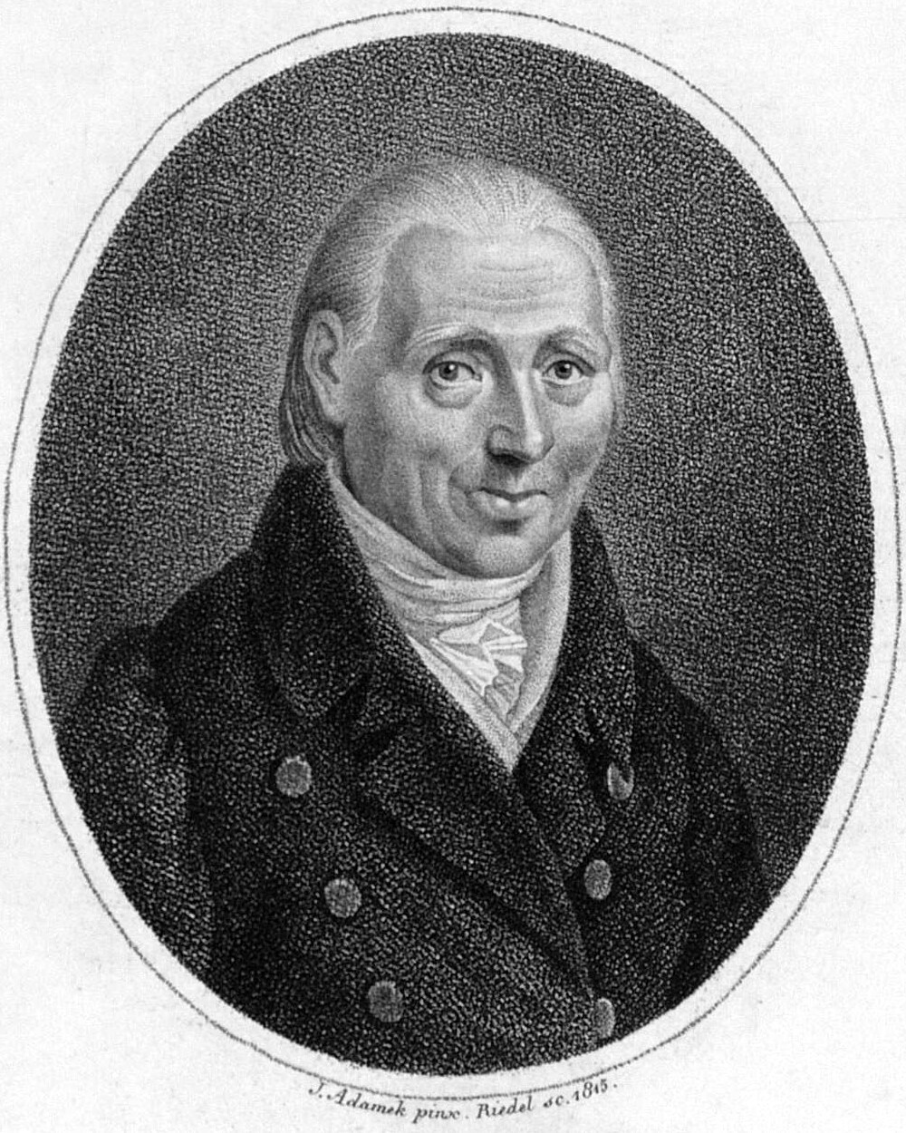 Depicted person: Johann Baptist Vanhal